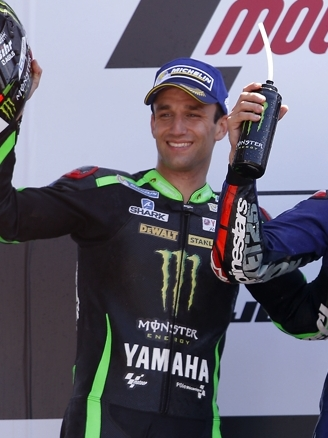 Maverick Viñales, Johann Zarco and Dani Pedrosa, celebrating on the podium at the 2017 French Grand Prix.